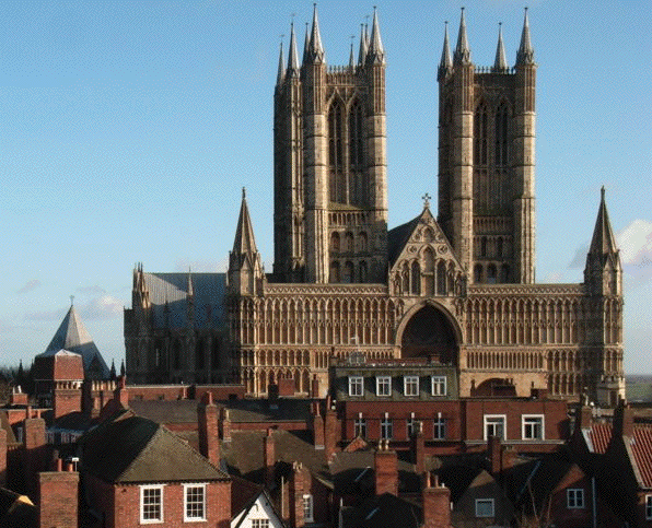 Almost total view of Lincoln Cathedral, seen from the Lincoln Castle. In relation to the original the resolution has been reduced